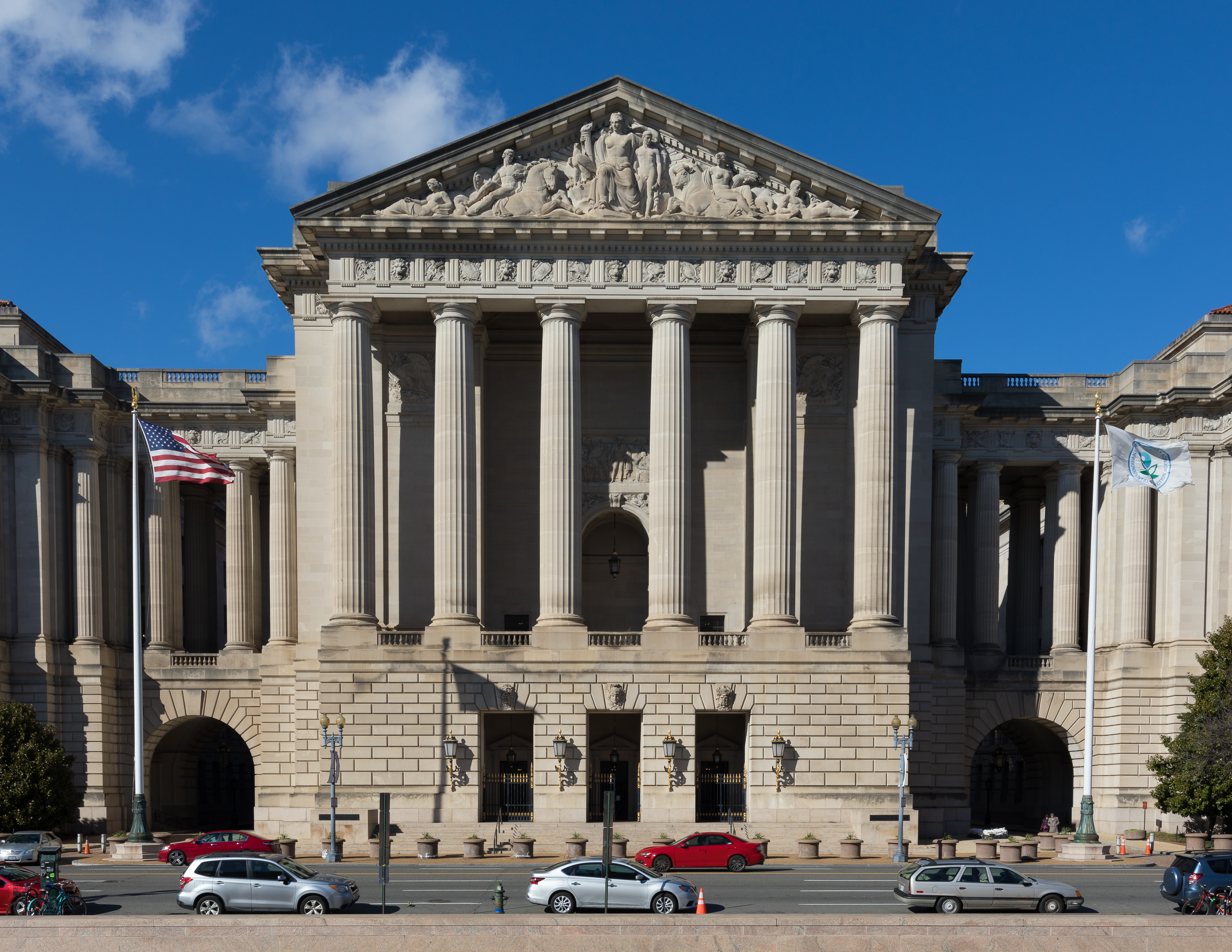 Exterior of the Andrew W. Mellon Auditorium in Washington, D.C., on February 27, 2020